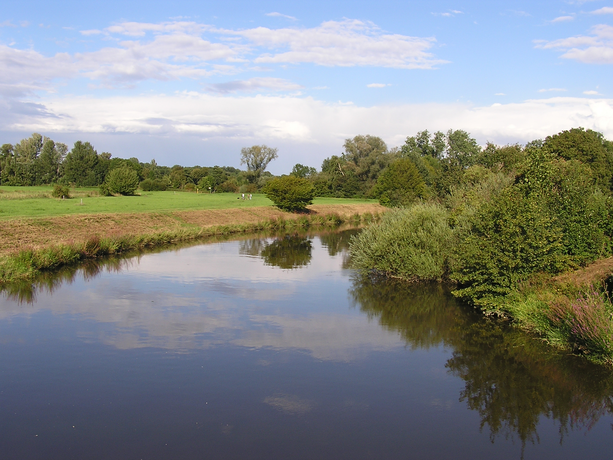 The Nidda in Frankfurt-Bonames. The water level is a bit higher because of rain.